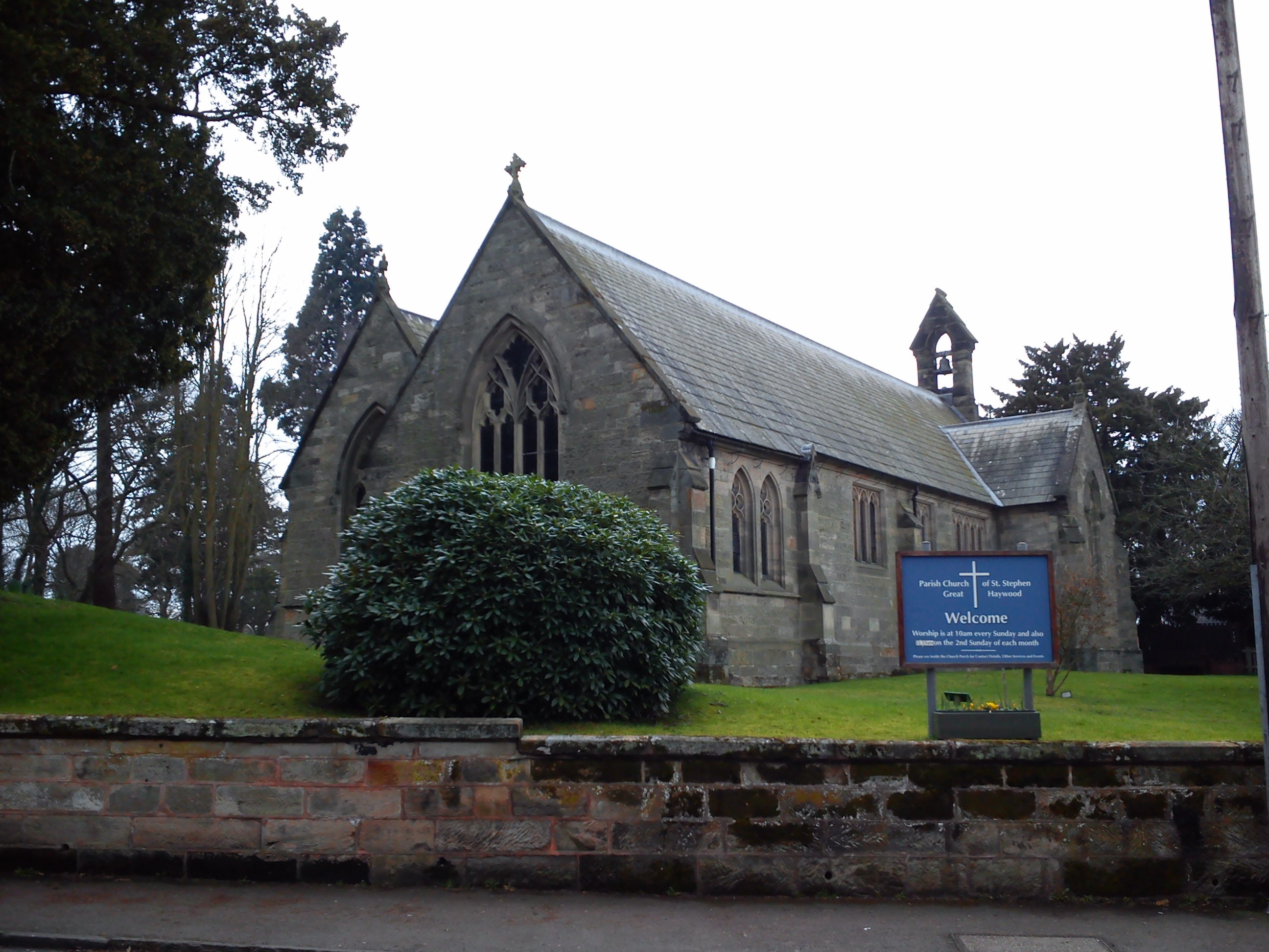 Great Haywood, Staffordshire - St Stephens Church